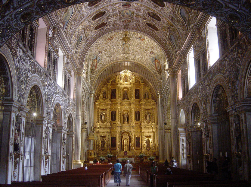 Santo Domingo, in Oaxaca. Please observe license and properly cite in use outside Wikipedia. This photo was moved from English Wikipedia.